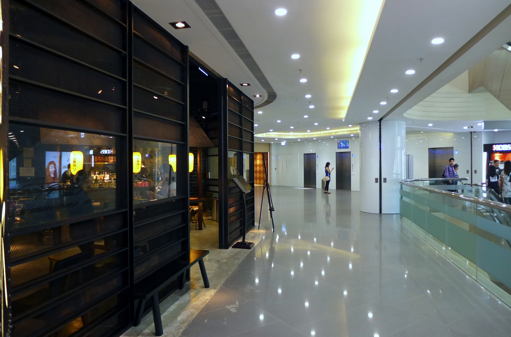 HK Times Square Food Forum 12/F